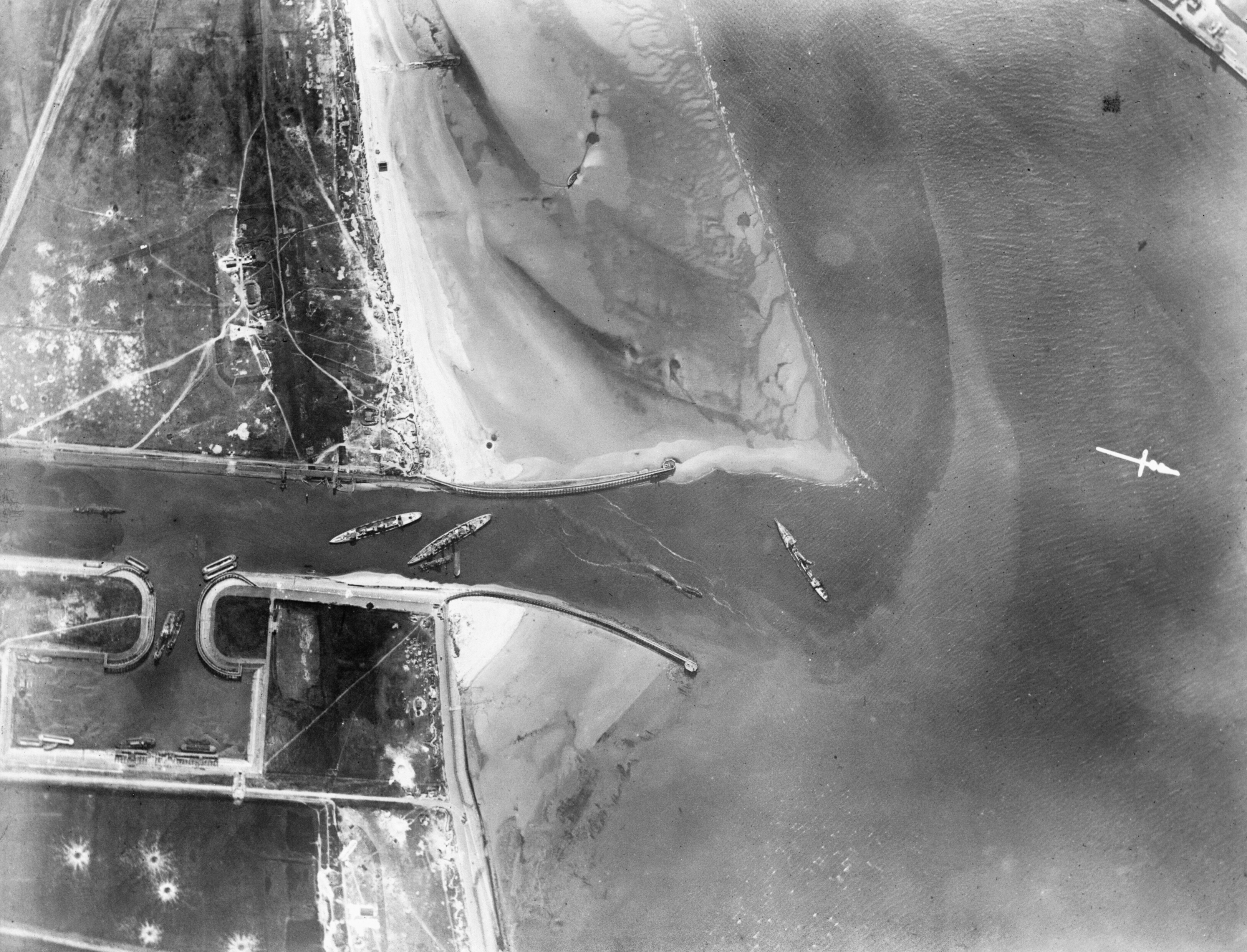 Aerial photograph showing aftermath of the Zeebrugge Raid. British blockships are, left - right : HMS Intrepid, HMS Iphigenia, HMS Thetis.